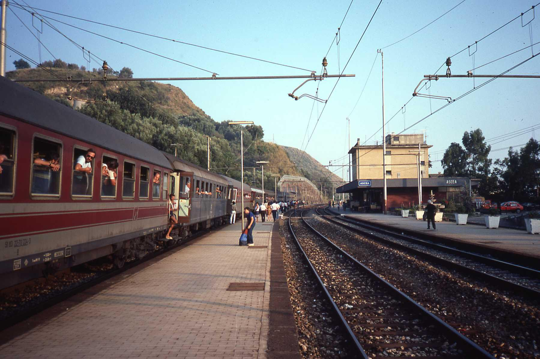 Train having a long unsheduled stop at Ascea in Campania. This is due to the locomotive catching fire. Foto taken in 1984.